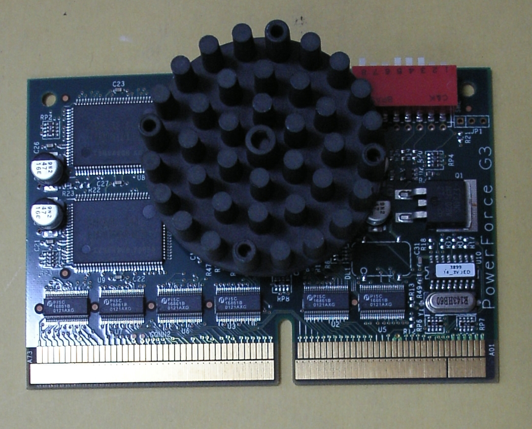 PowerForceG3 G3 400/200 PowerLogix社製のMacintosh用CPUグレードカード。PPC750 400MHz搭載。A CPU upgrade card for Macintosh,with PPC750 400MHz.